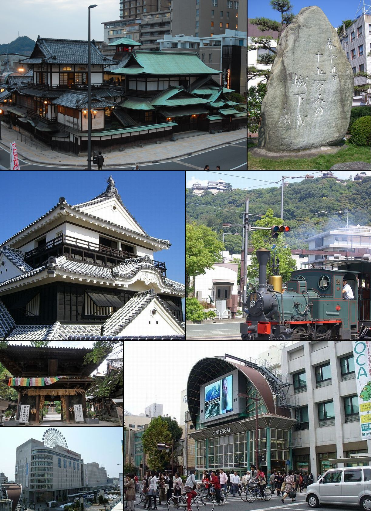 Matsuyama City, Ehime Prefecture, JAPAN From top left:Dōgo Hot Springs, Stone monument of Shiki Masaoka(One of the most famous Japanese haiku poet who was born in Matsuyama.), Matsuyama Castle, Botchan train, The gate of Ishite-ji Temple(Japan's National Treasure), Iyotetsu Matsuyama-shi Station, Matsuyama Gintengai Street